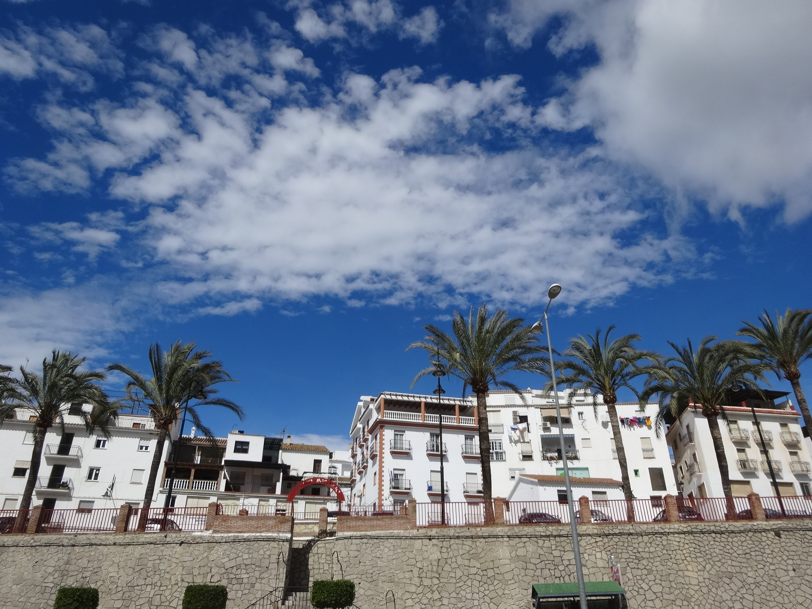 Algarrobo, Málaga (Spain), Paseo Pablo Picasso, March 2017